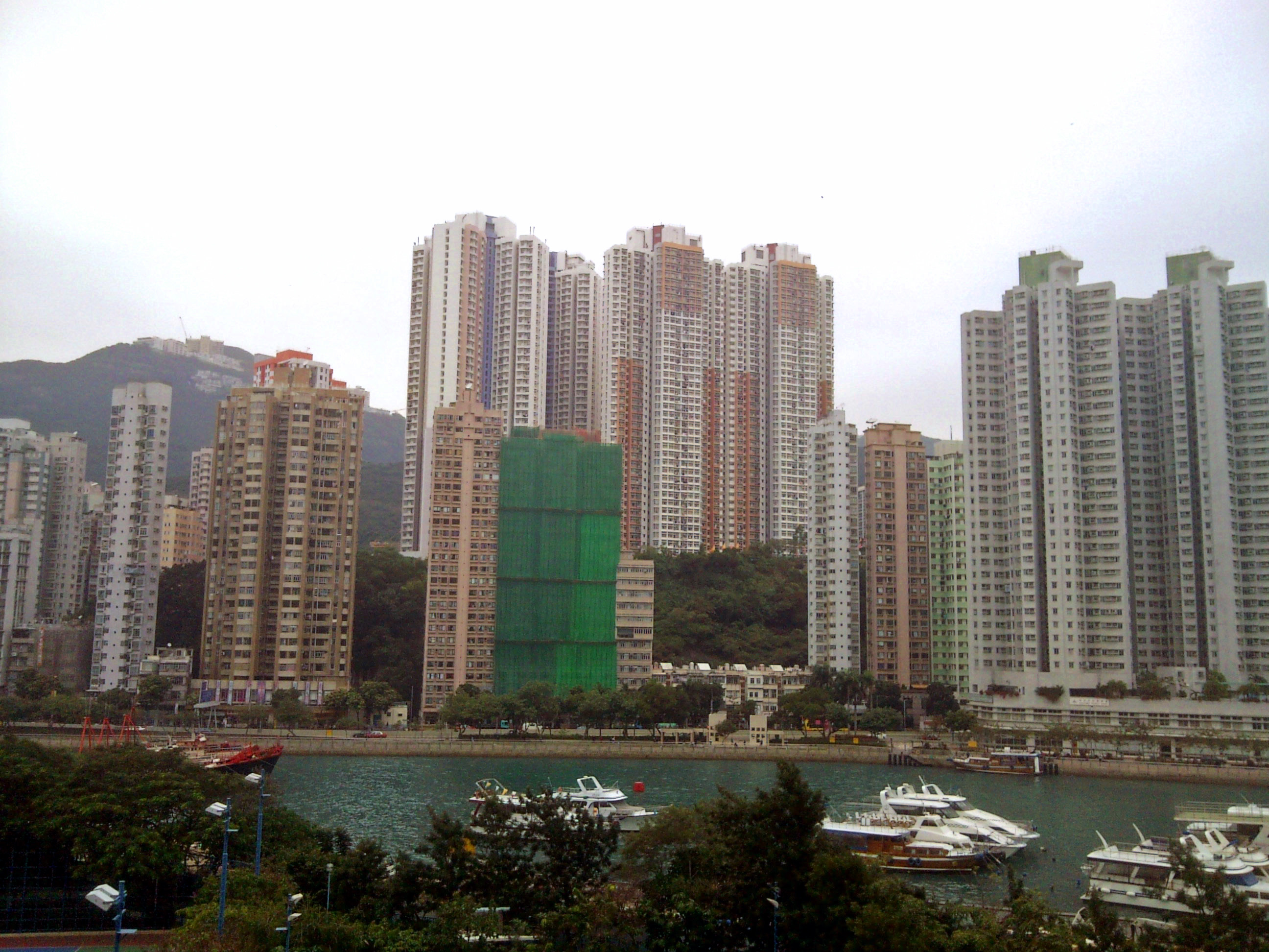 Aberdeen Fifteen Houses